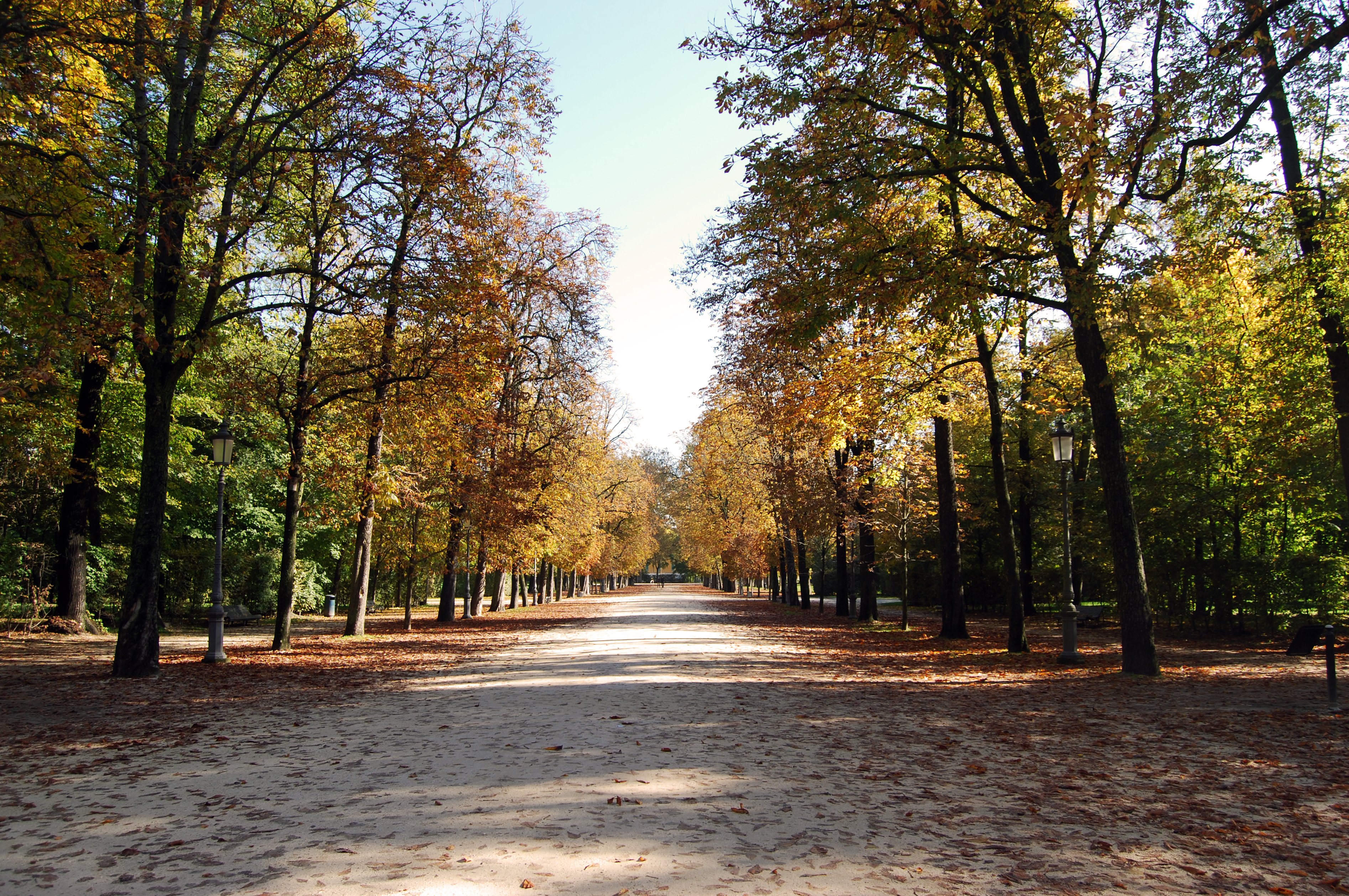 Parco Ducale in Parma - autumn